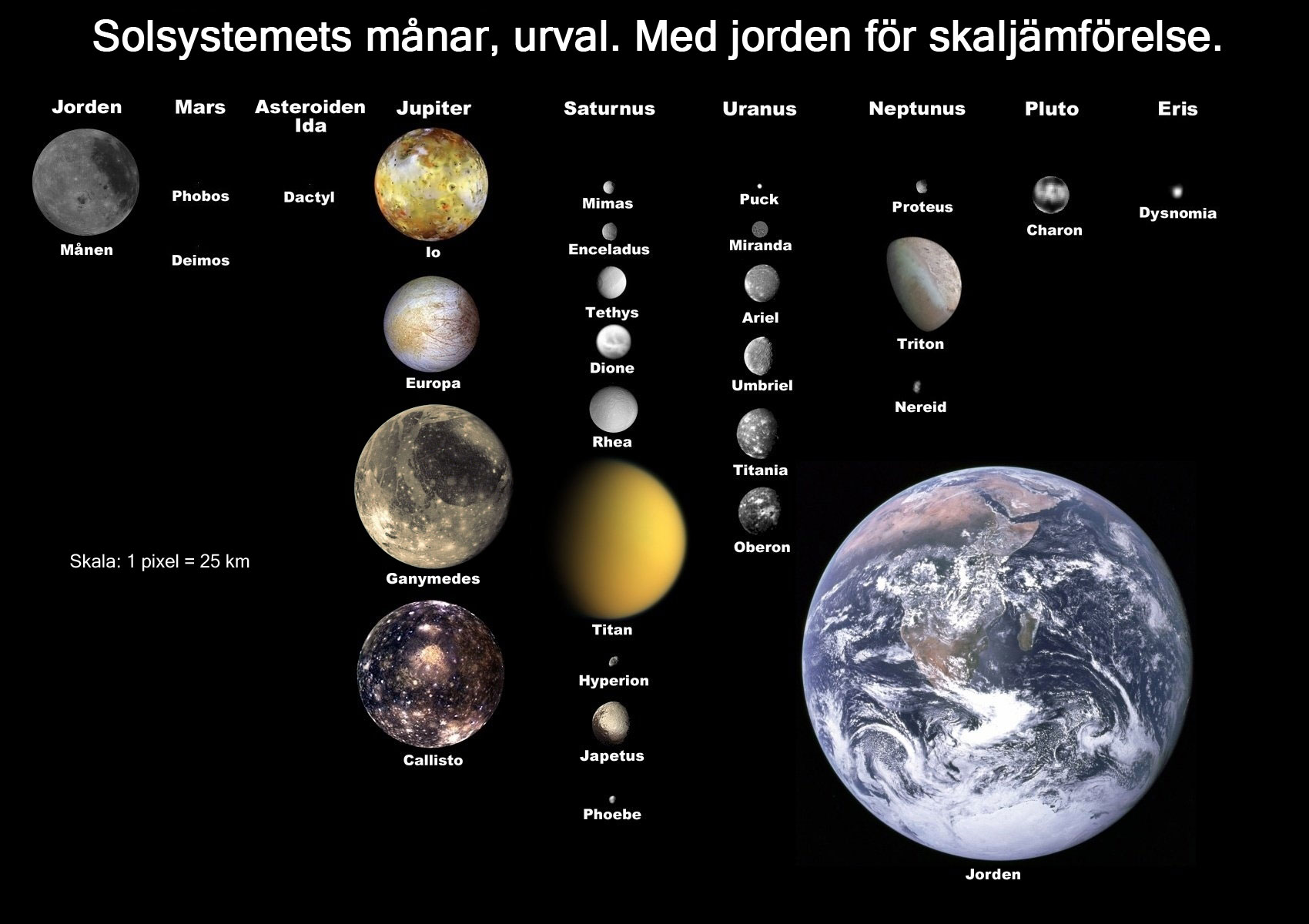 Note: See the version numbered to create or enhance one translation. If you can, help make this description accessible to all by translating it into other languages – thanks!